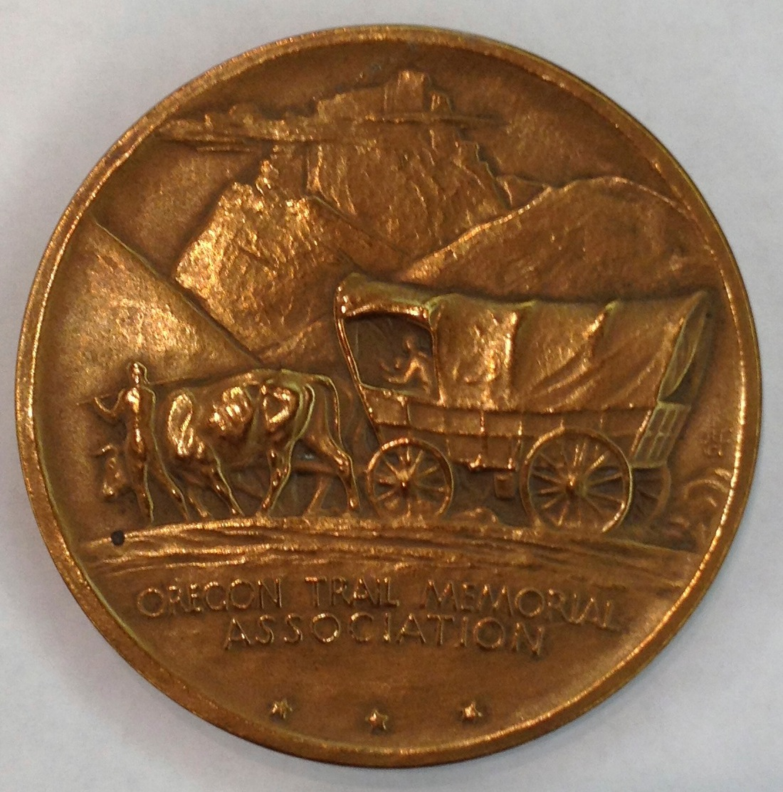 Award medal of the Oregon Trail Memorial Association (1926-1940, more or less). This one was presented to Howard R. Driggs